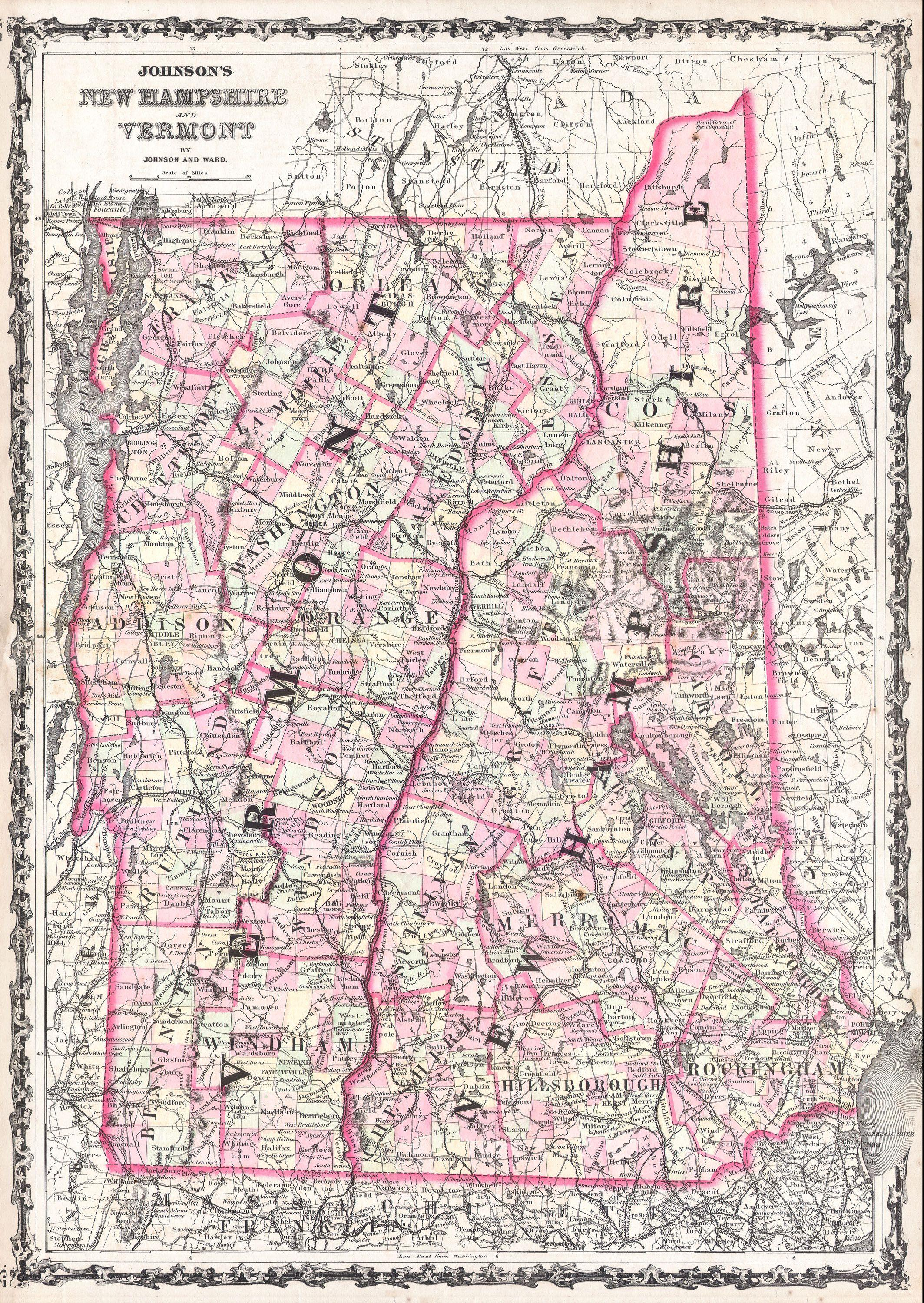 This is a beautifully hand colored 1862 map of Vermont and New Hampshire by A. J. Johnson. Depicts the two states in stupendous detail with even individual buildings drawn in. This early variation of the Johnson map appears only in the 1860 – 1862 editions of the Atlas. The plates for Vermont and New Hampshire were redesigned for the 1863 and all subsequent editions of the Johnson’s Atlas.